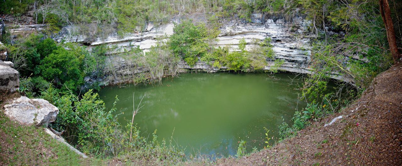 "Cenote de los Sacrificios" at Chichén Itzá, Yucatán Peninsula, Mexico. A karst lake, reflecting the karst's water table.